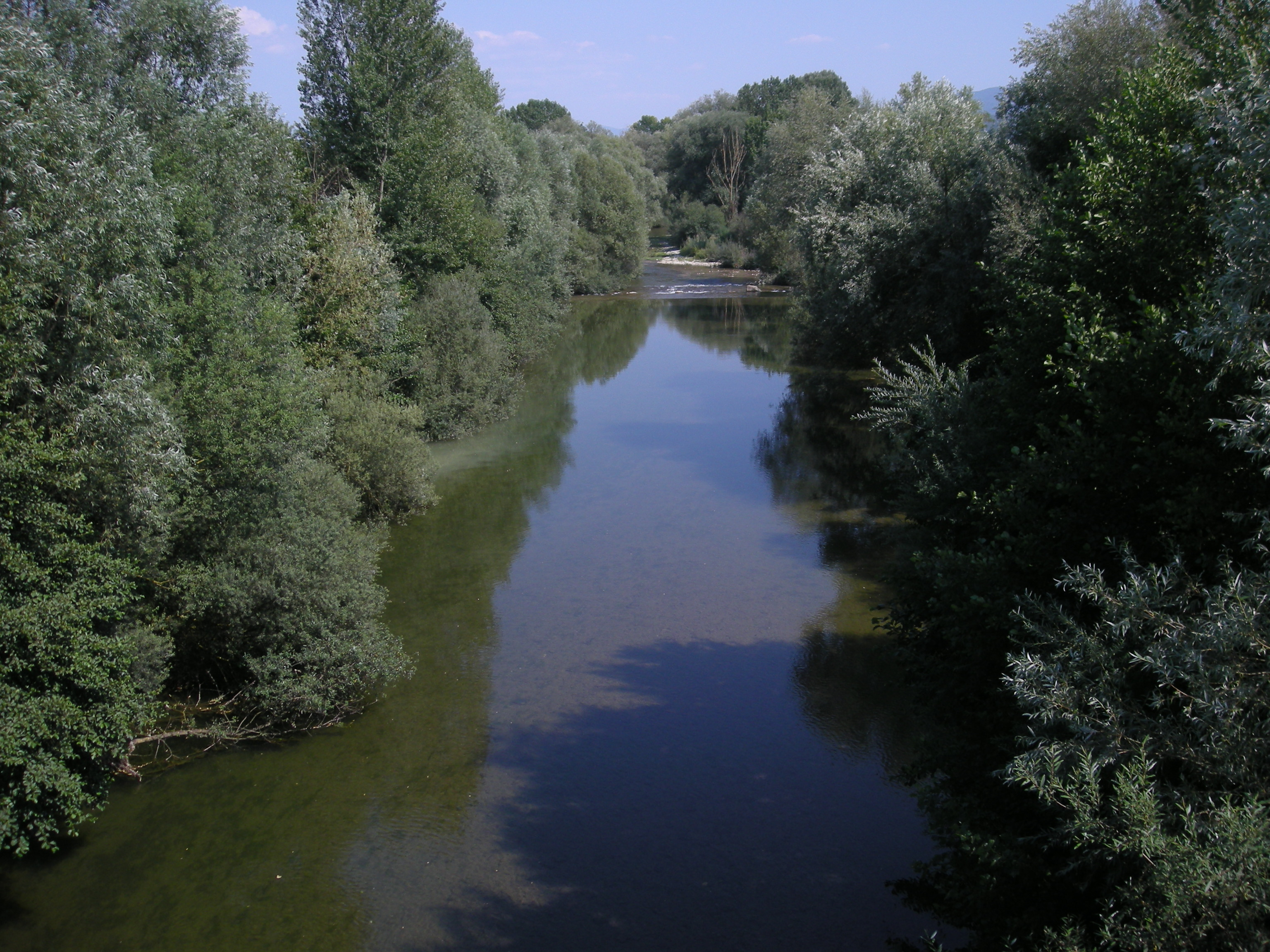 Sieve river at San Piero a Sieve (Province of Florence - Italy)